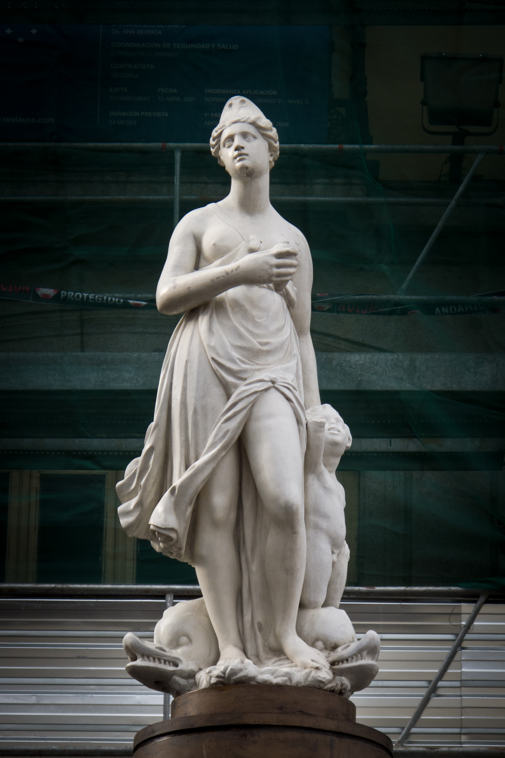 Statue of the Mariblanca, Puerta del Sol, Madrid, Spain.